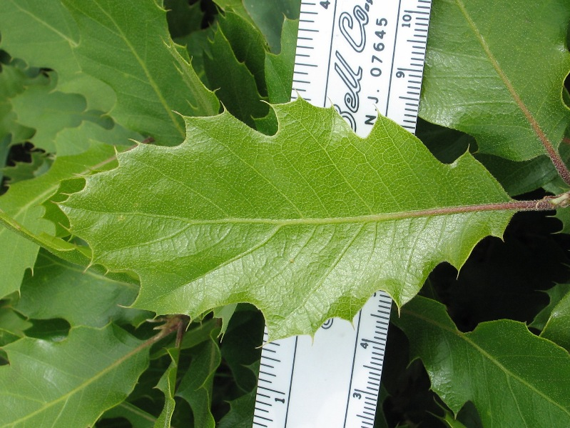 Quercus kelloggii leaf from Marin Headlands, GOGA (Marin County, California, US). "Photos copyrighted as, "Robert Steers/NPS," are public domain and can be used without requesting permission but please give credit."